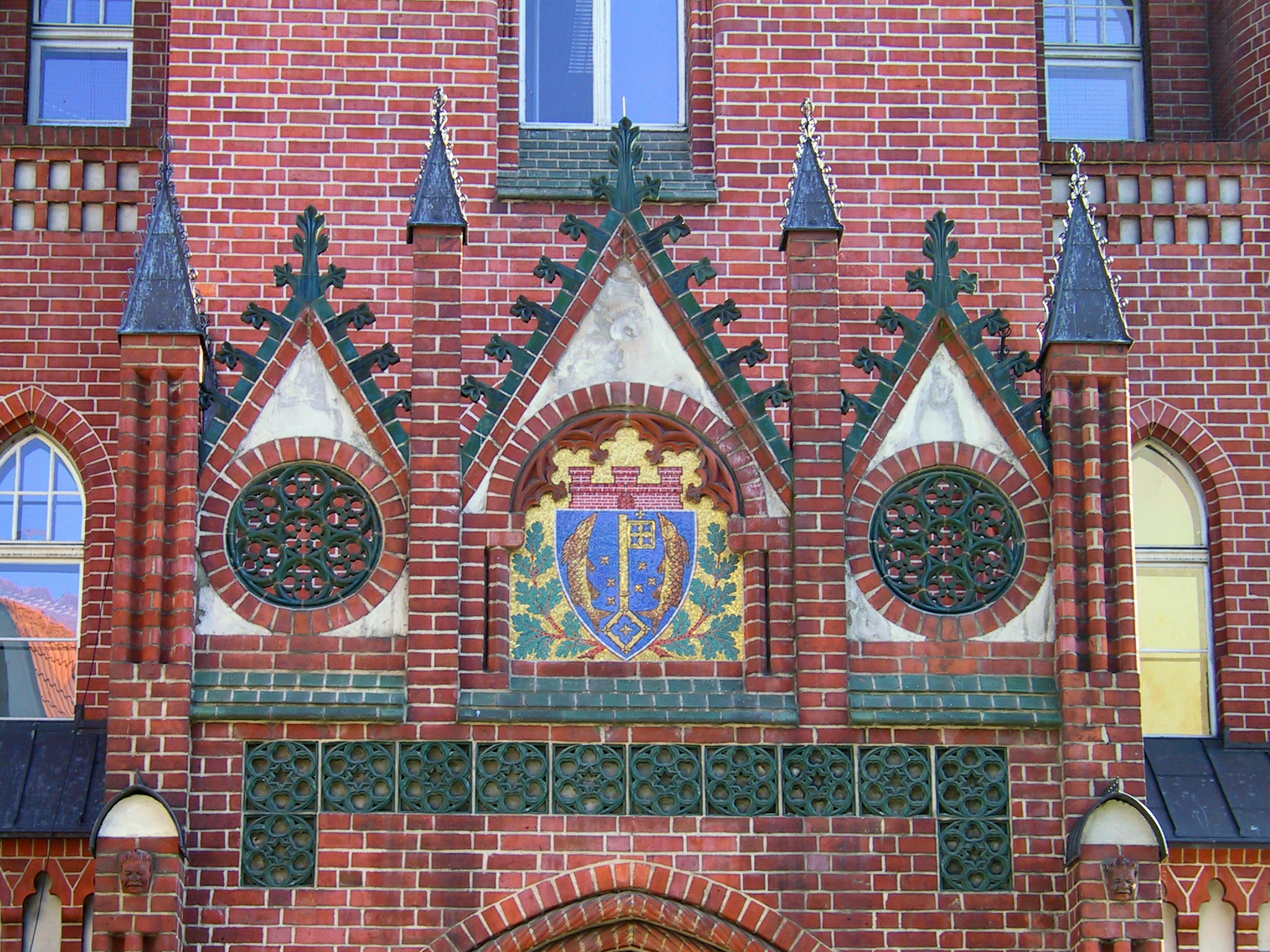 Coat of arms of Köpenick on town hall of Köpenick, a localitie of Berlin.